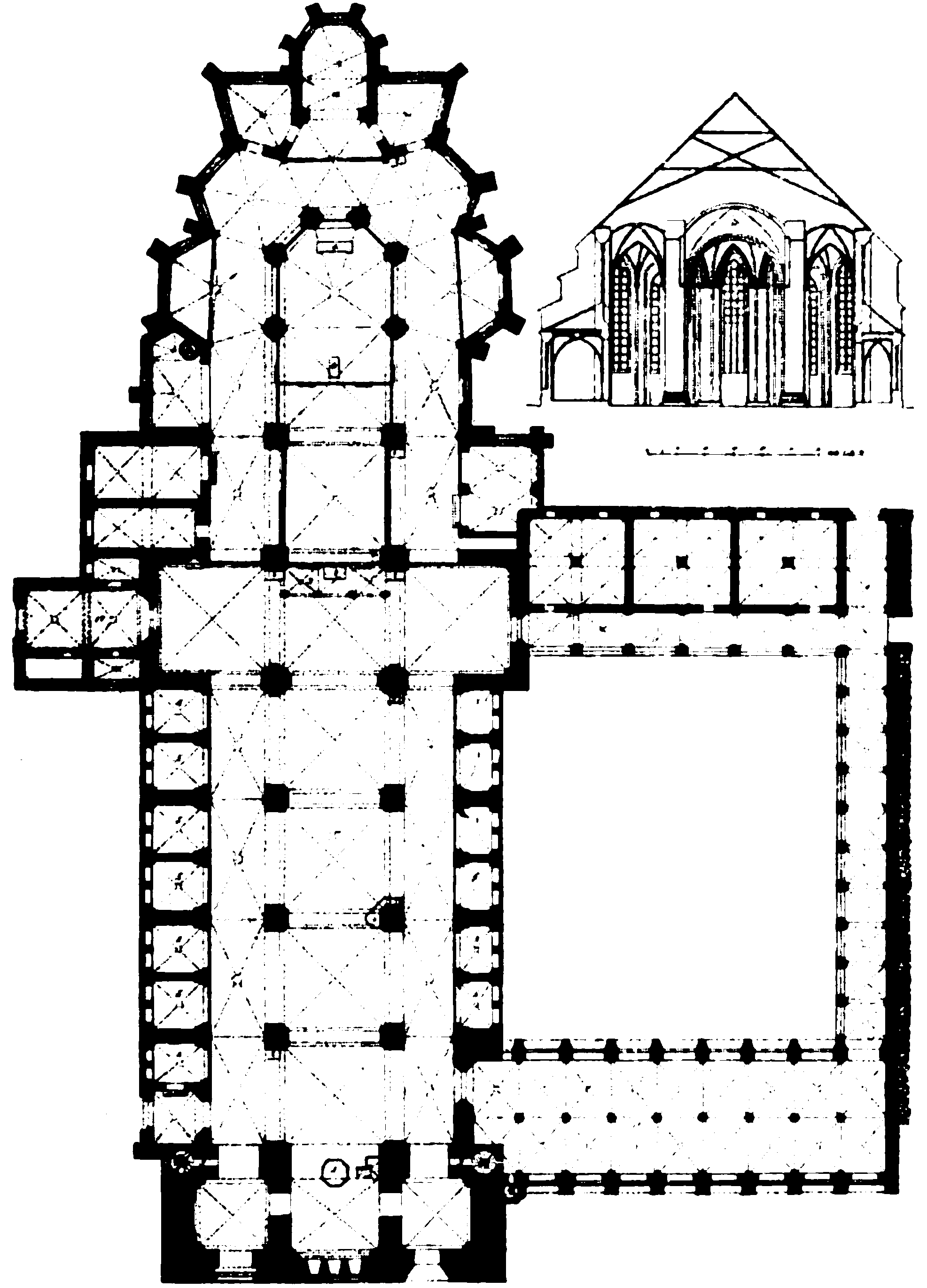 Ground plan of Lübeck cathedral